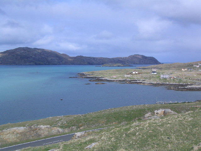 North Eriskay. View NE across the sound of Eriskay - site of foundering of SS Politician of Whisky Galore fame